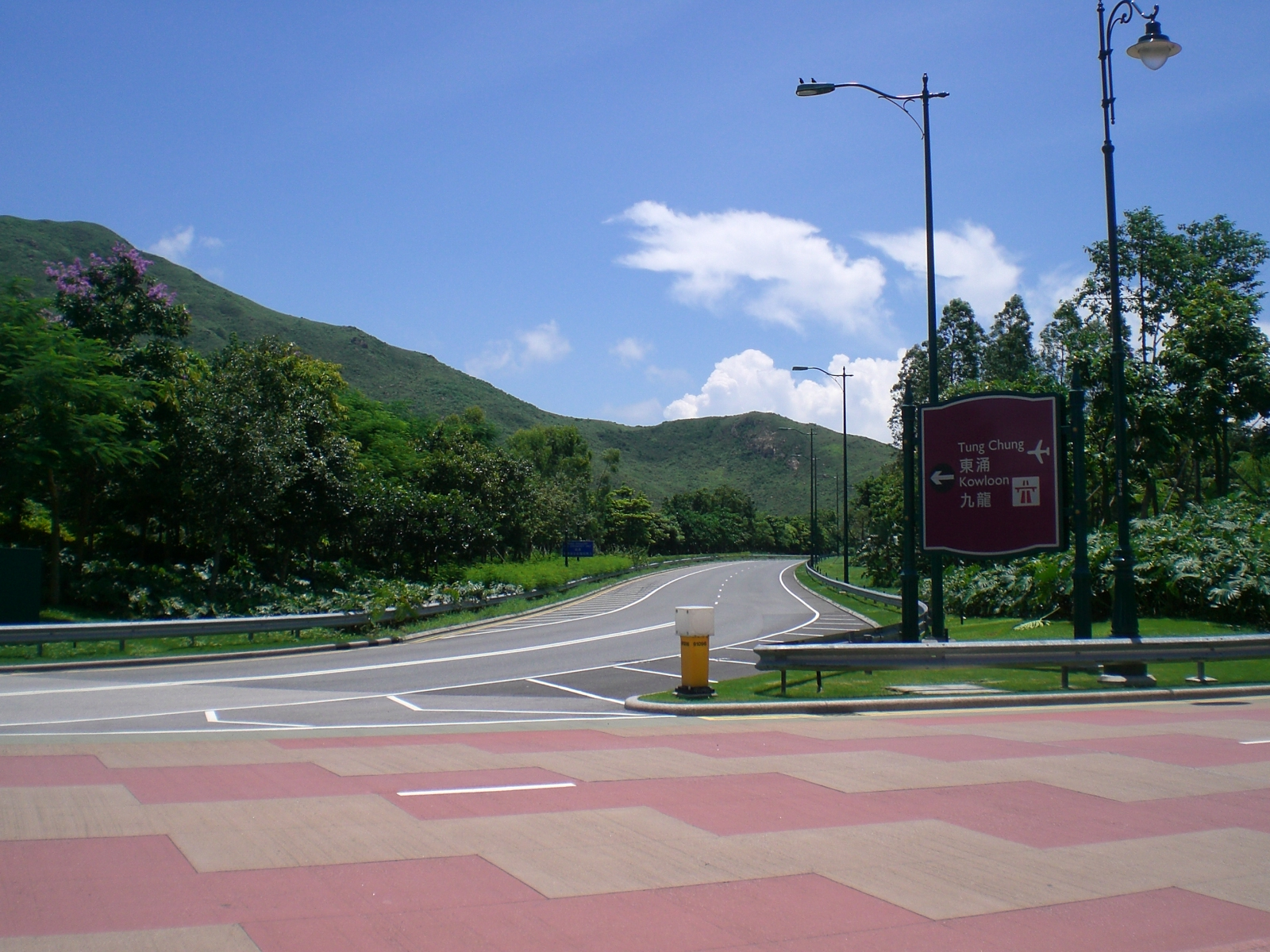 大嶼山欣澳道 June 16th, 2007 夏天